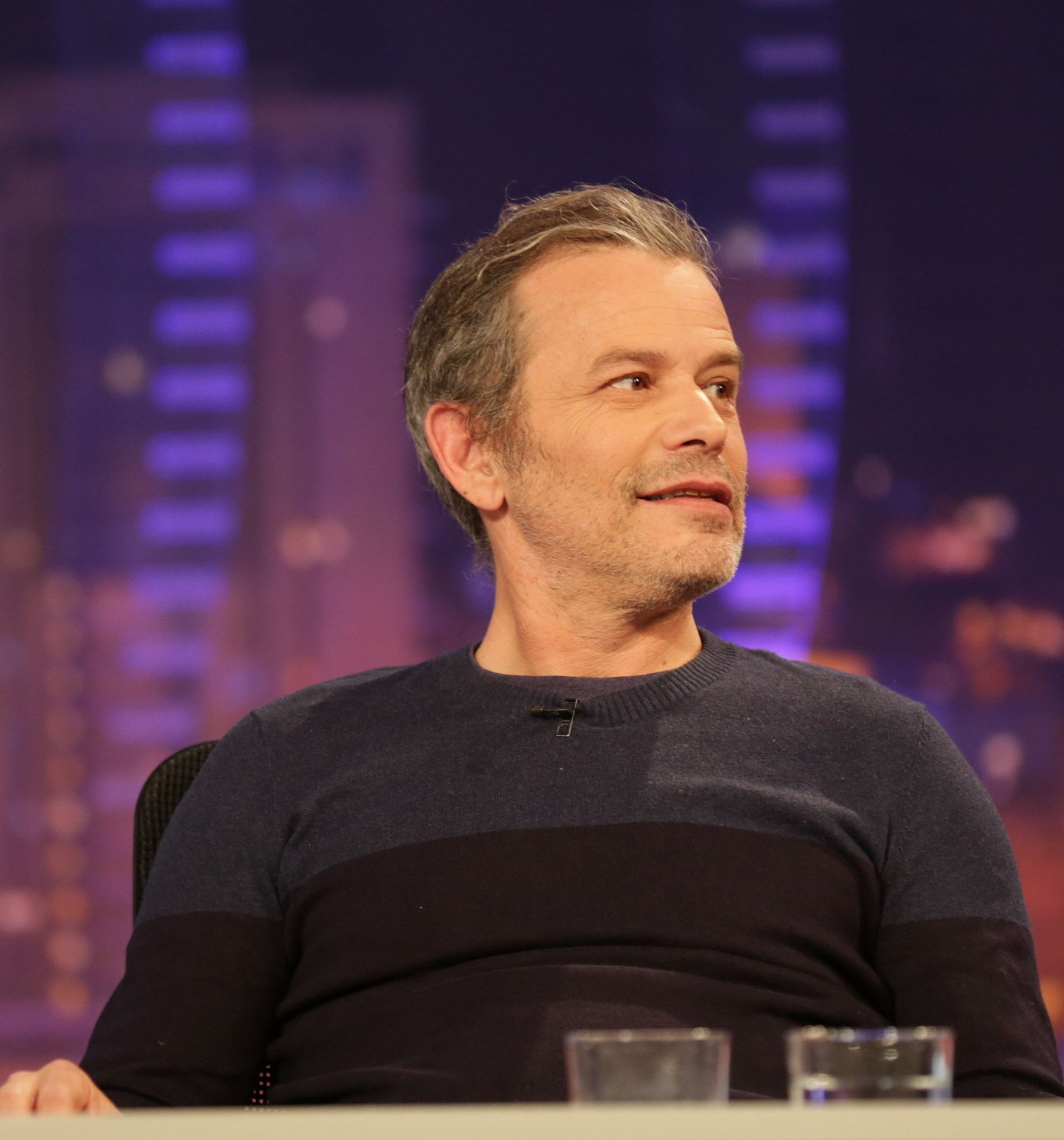 רמי הויברגר בגב האומה